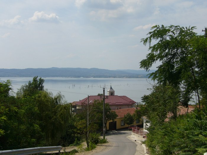 Coronini, Rumania